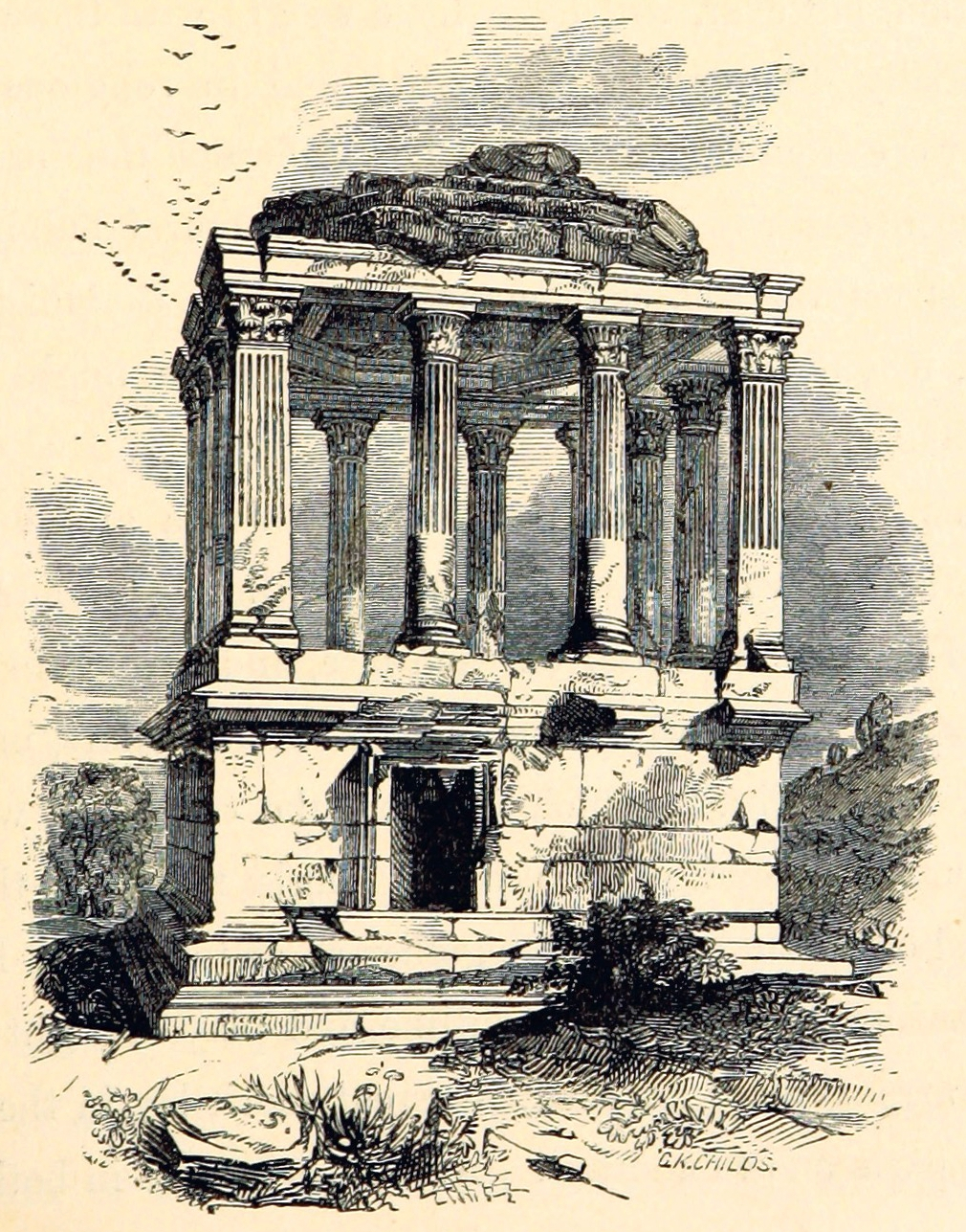 Image taken from: Title: "Architecture at Ahmedabad, the Capital of Goozerat, photographed by Colonel Biggs, ... With an historical and descriptive sketch, by T. C. H., ... and architectural notes by J. Fergusson, etc" Author: HOPE, Theodore Cracraft - Sir, K.C.S.I Contributor: BIGGS, Thomas. Contributor: FERGUSSON, James - Architect Shelfmark: "British Library HMNTS 10057.f.17.", "British Library OC V 6665" Page: 97 Place of Publishing: London Date of Publishing: 1866 Issuance: monographic Identifier: 001730119 Explore: Find this item in the British Library catalogue, 'Explore'. Download the PDF for this book (volume: 0) Image found on book scan 97 (NB not necessarily a page number) Download the OCR-derived text for this volume: (plain text) or (json) Click here to see all the illustrations in this book and click here to browse other illustrations published in books in the same year. Order a higher quality version from here.